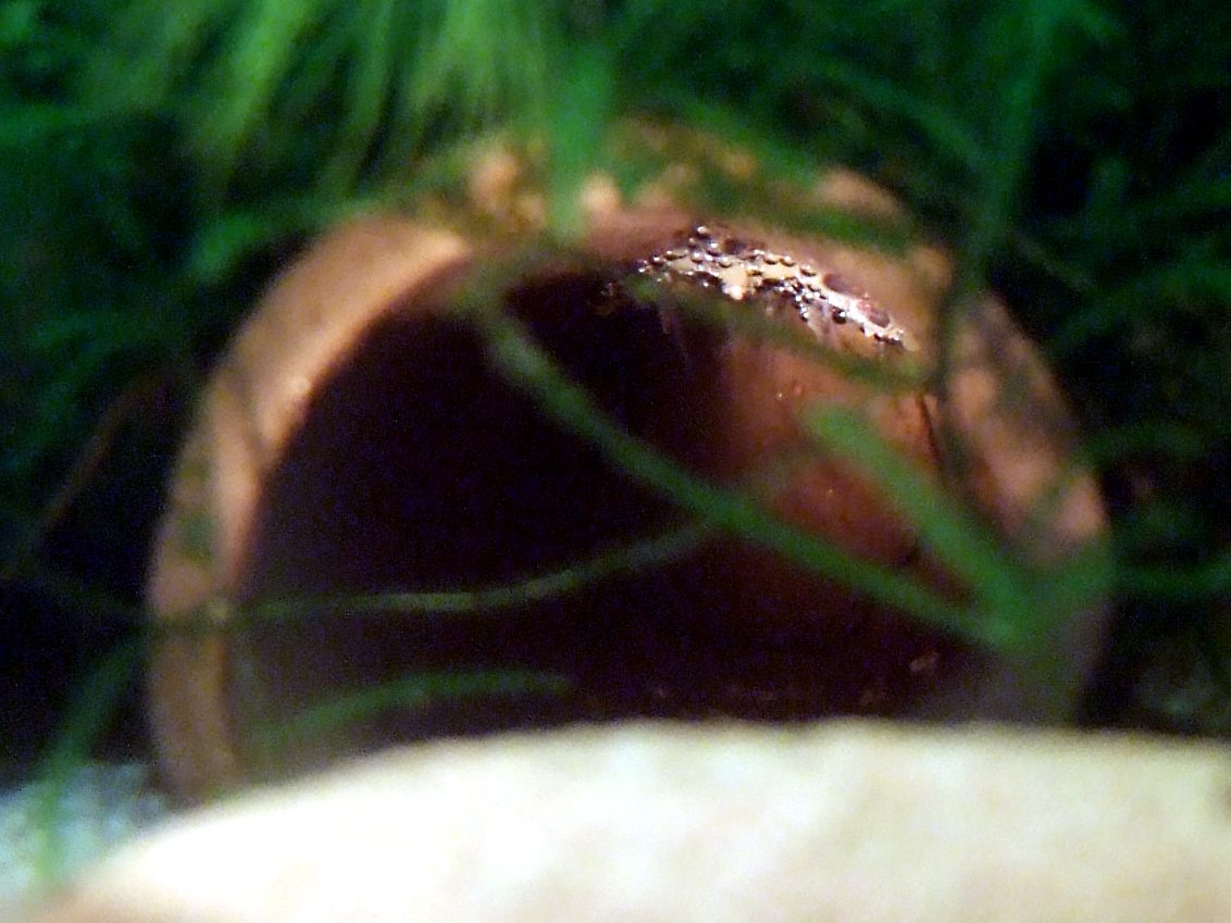 A typical Parosphromenus-bubblenest (P. spec. „Langgam“) with eggs and larvae inside a small cave.